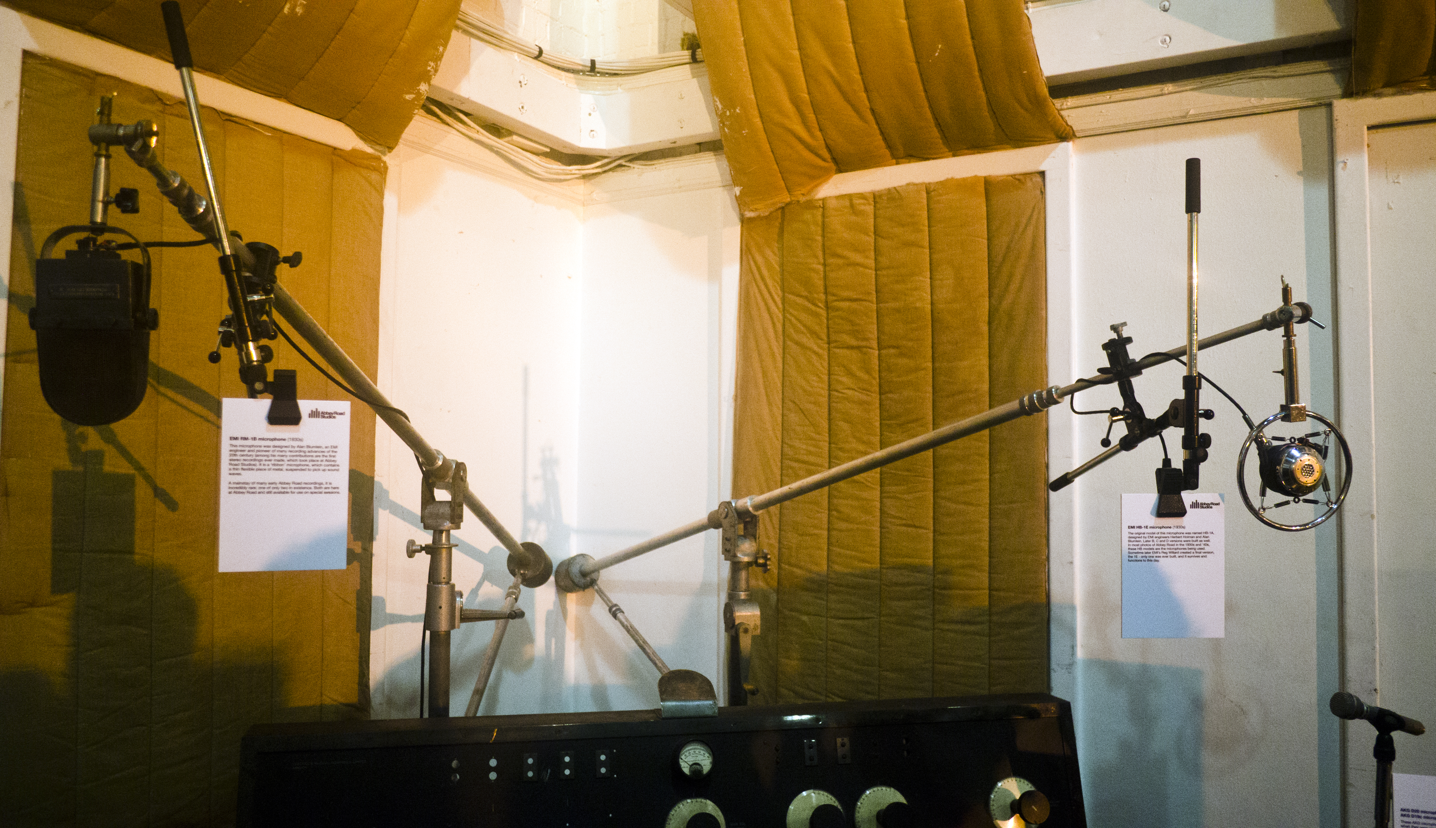 the beatles microphones. EMI RM-1B microphone (1930s, left) This microphone was designed by Alan Blumlein, an EMI engineer and pioneer of many recording advances of the 20th century (among the many constructions are the first stereo recordings ever made, which took place at Abbey Road Studios). It is a 'ribbon' microphone, which containes in thin flexible piece of metal, suspended to pick up sound waves. A mainstay of many early Abbey Road recordings, it is incredibly rare: one of only two to existence. Both are here at Abbey Road and still available for use on special sessions. EMI HB-1E microphone (1930, right) The original model of this microphone was named HB-1A, designed by EMI engineers Herbert Holman and Alan Blumlein. Later B, C and D version were built as well. In most photos of Abbey Road in the 1930s and '40s, these HB models are the microphones behing used. Sometime, later EMI's Reg Willard created a final version, the 1E only one was ever built, and it survives and functions to this day.